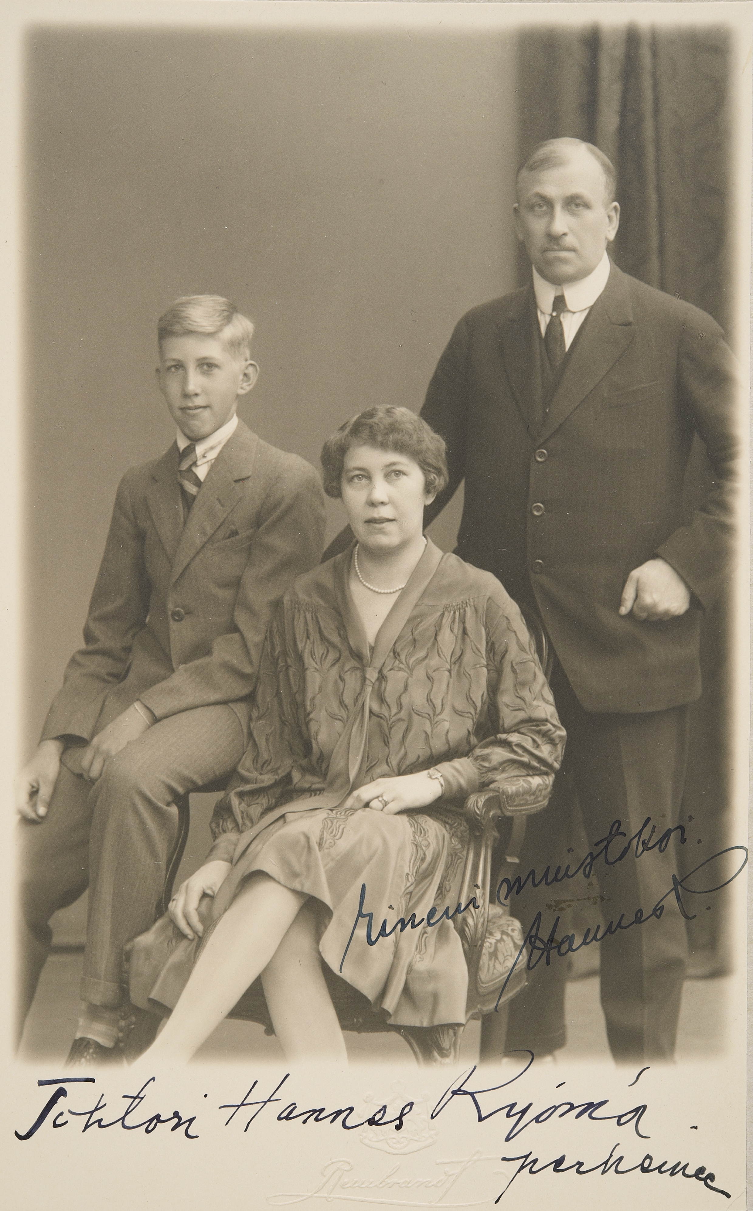 Photograph of the Finnish politician Hannes Ryömä (1878–1939) with his wife Eine Magda Sofia née Sundvall and son Mauri.